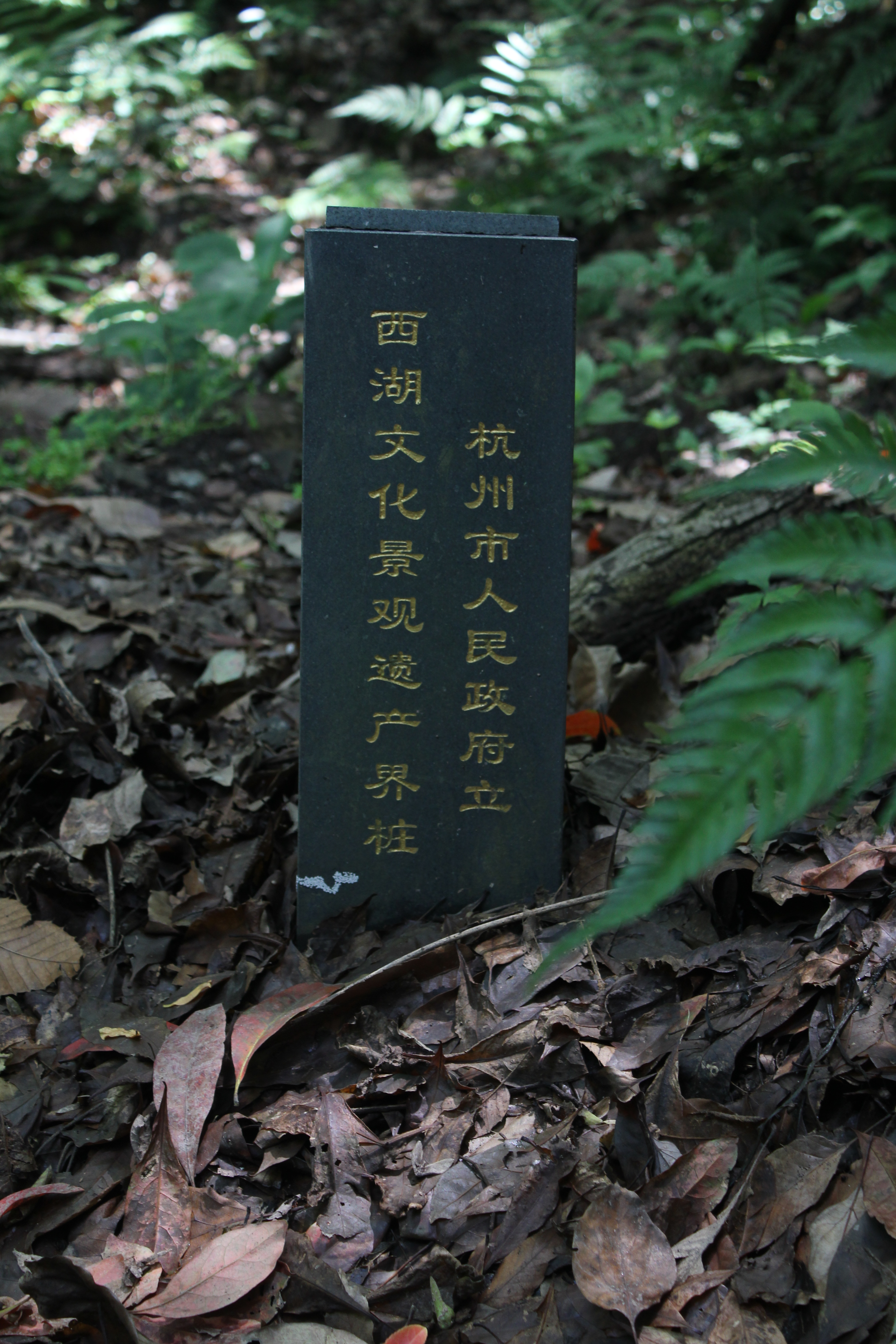 A boundary marker of West Lake Cultural Landscape of Hangzhou